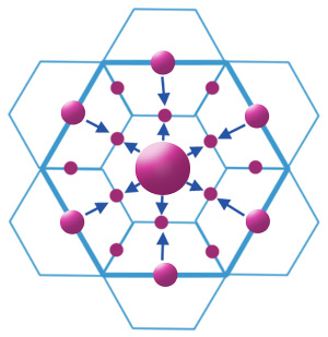 Christaller's second model of distribution of cities on space, according to the distance cost (transport) principle.